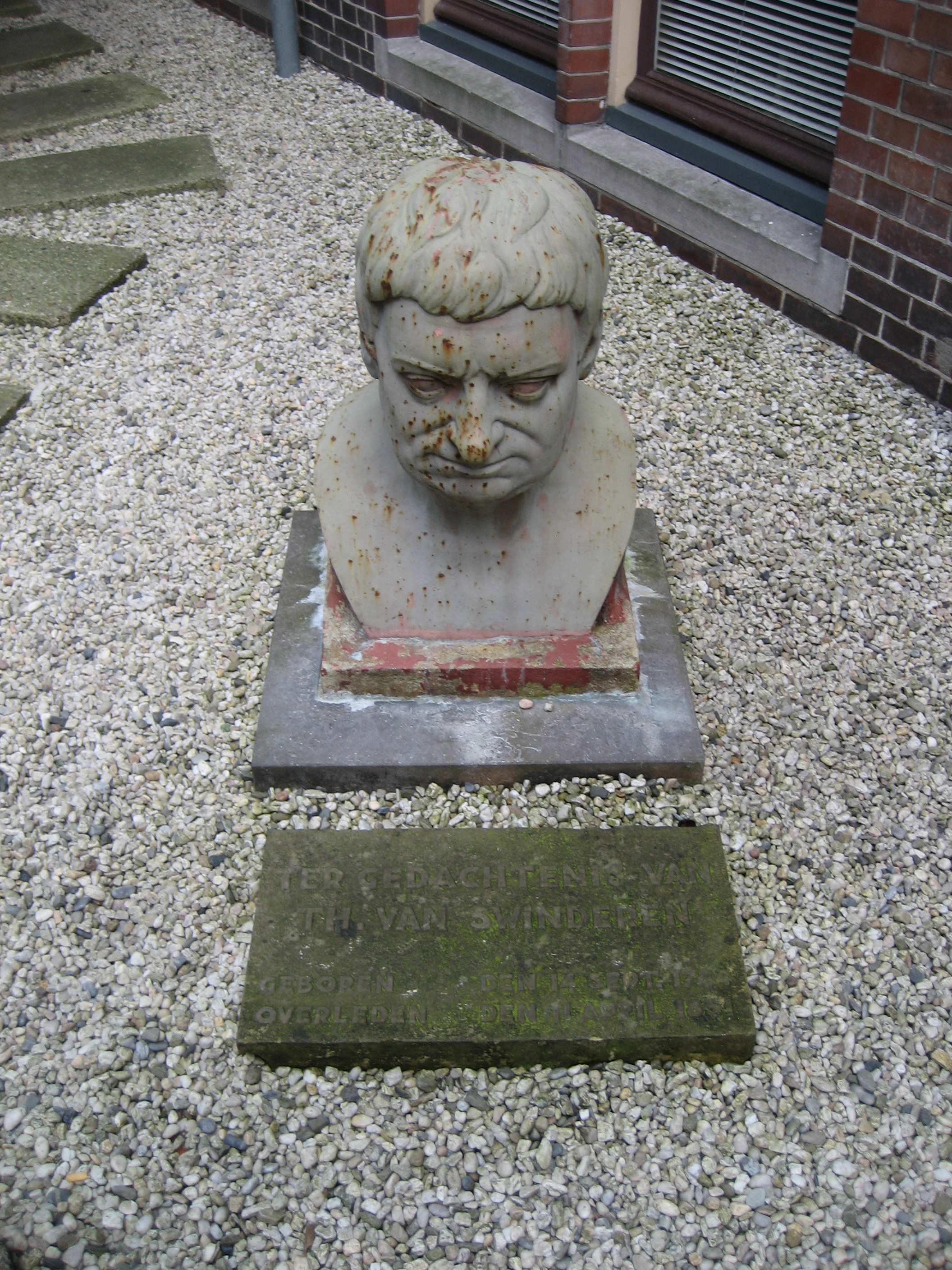 Theodorus van Swinderen (1784-1851), professor natural history University of Groningen. Bust in garden, University Museum Groningen